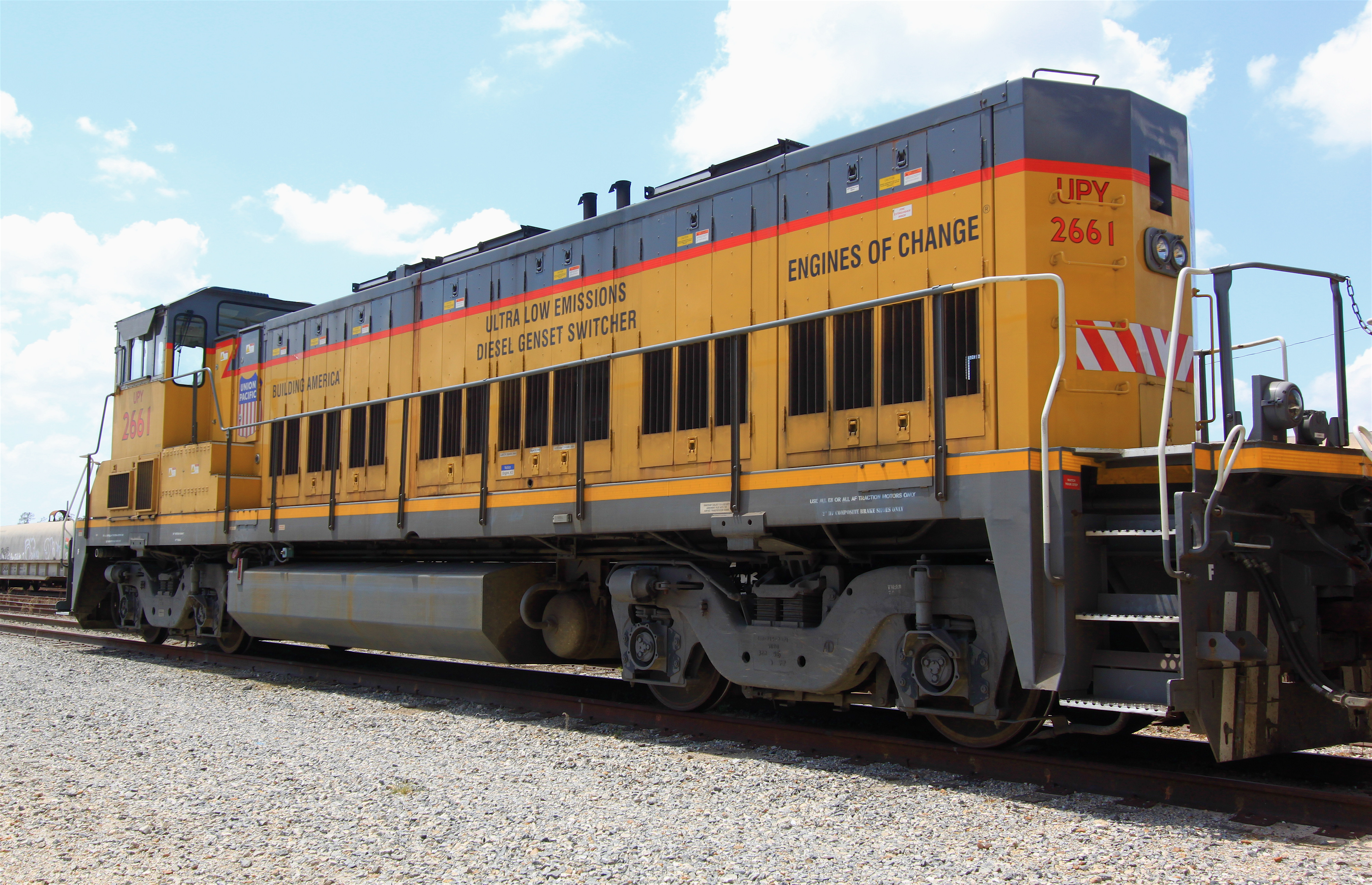 Just inside Loop 610 in Houston. The Genset is an environmentally-friendly (low emissions) diesel-electric switcher. UPY #2661 is a Railpower Technologies RP20BD. The Union Pacific Railroad classes these units as RP20GE. This locomotive was rebuilt from a GE B23-7.